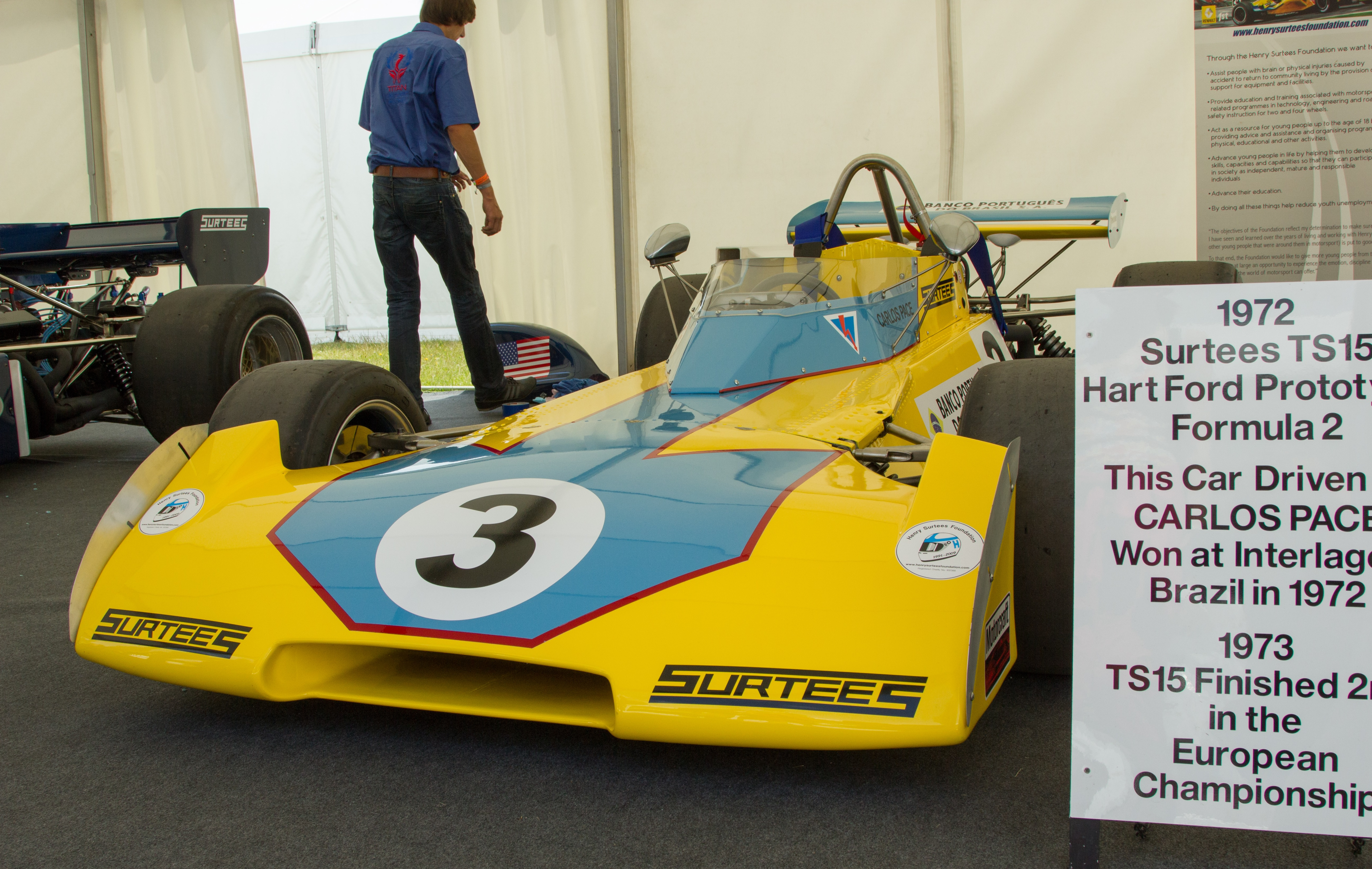 The Surtees TS15 F2 car at the 2014 Goodwood Festival of Speed.